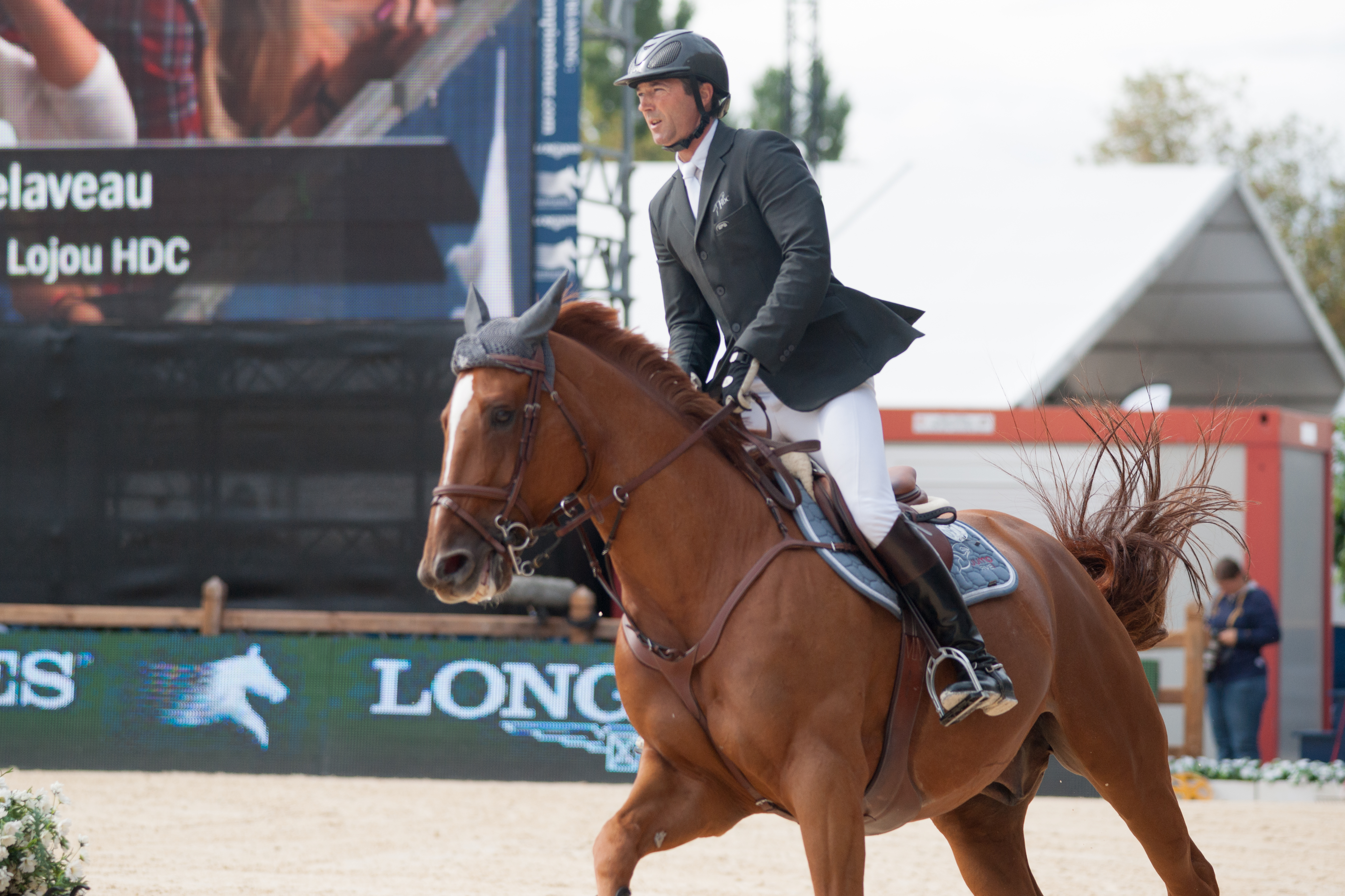 The making of this document was supported by Wikimedia CH.(Submit your project!) For all the files concerned, please see the category Supported by Wikimedia CH. 2013 Longines Global Champions Tour